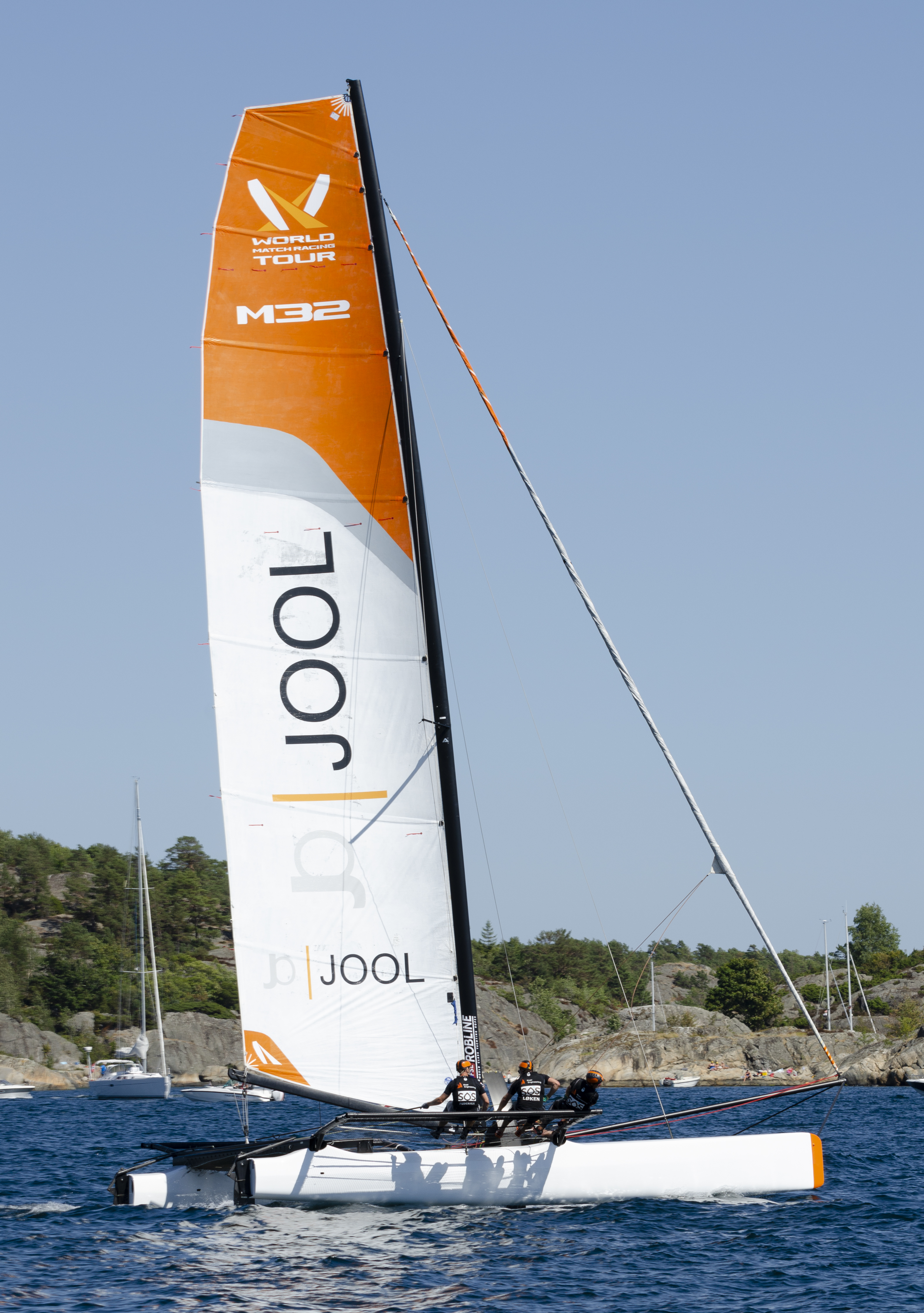 Norsteam's M32 boat during Match Cup Norway 2018 in Risør, part of the World Match Racing Tour.